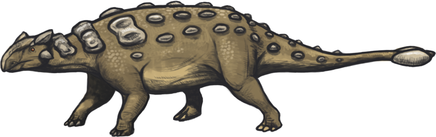 Simple drawing of Ankylosaurus magniventris, a North American Cretaceous ankylosaurid. Based on skeletal reconstruction in Paul 2010.